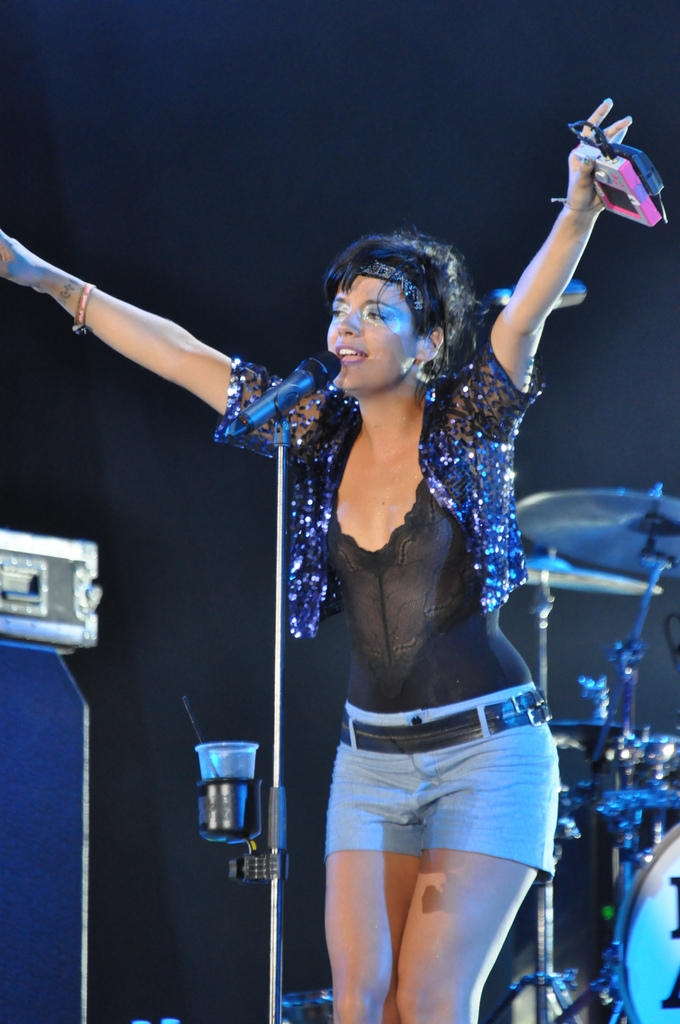 Lily Allen performing at the Sziget Festival on August 12, 2009.